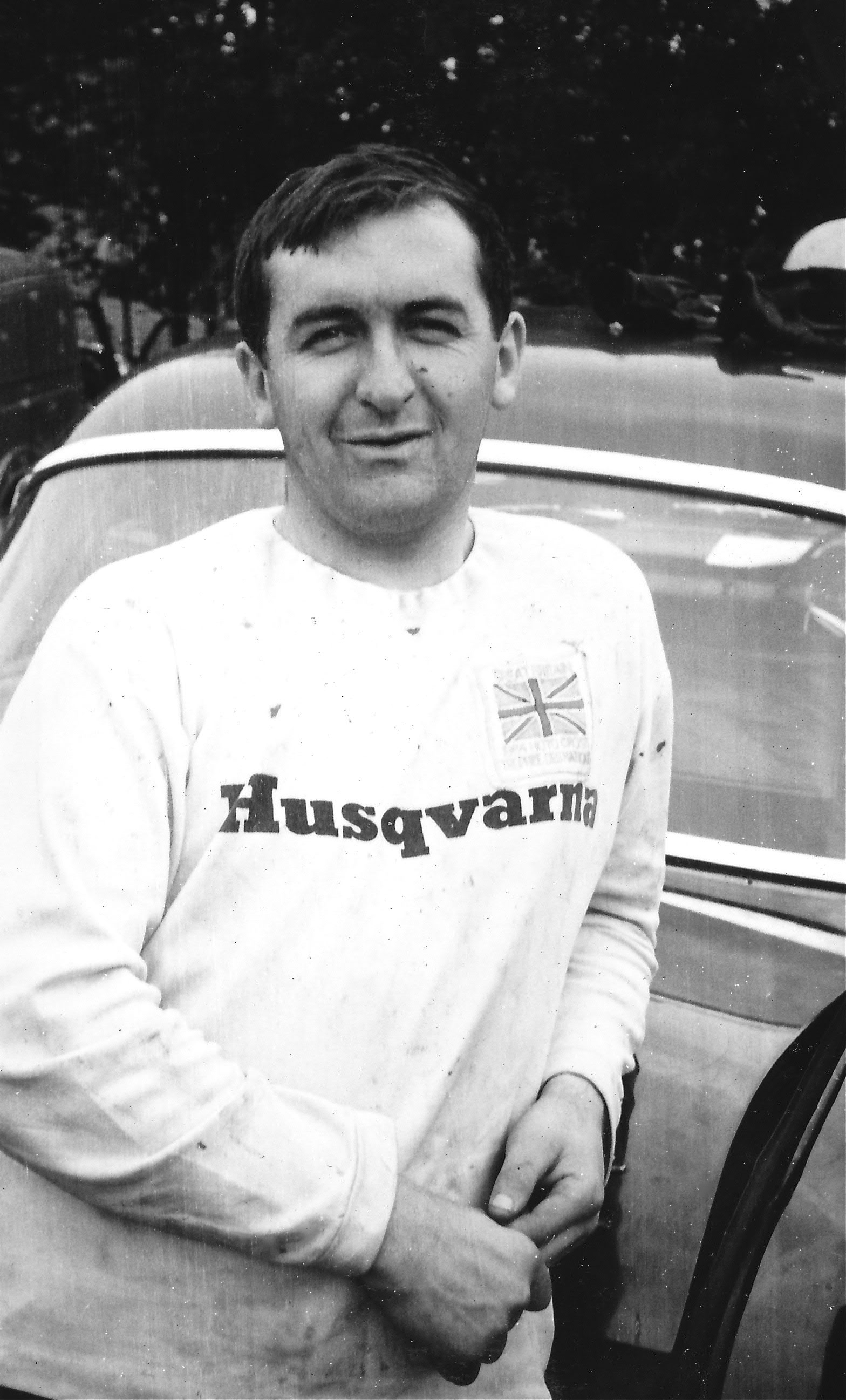 Bryan 'Badger' Goss at a moto cross event in 1966